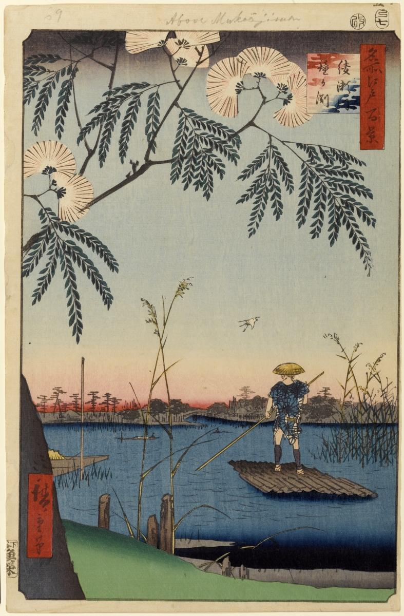 Part of the series One Hundred Famous Views of Edo, no. 063, part 2: Summer.